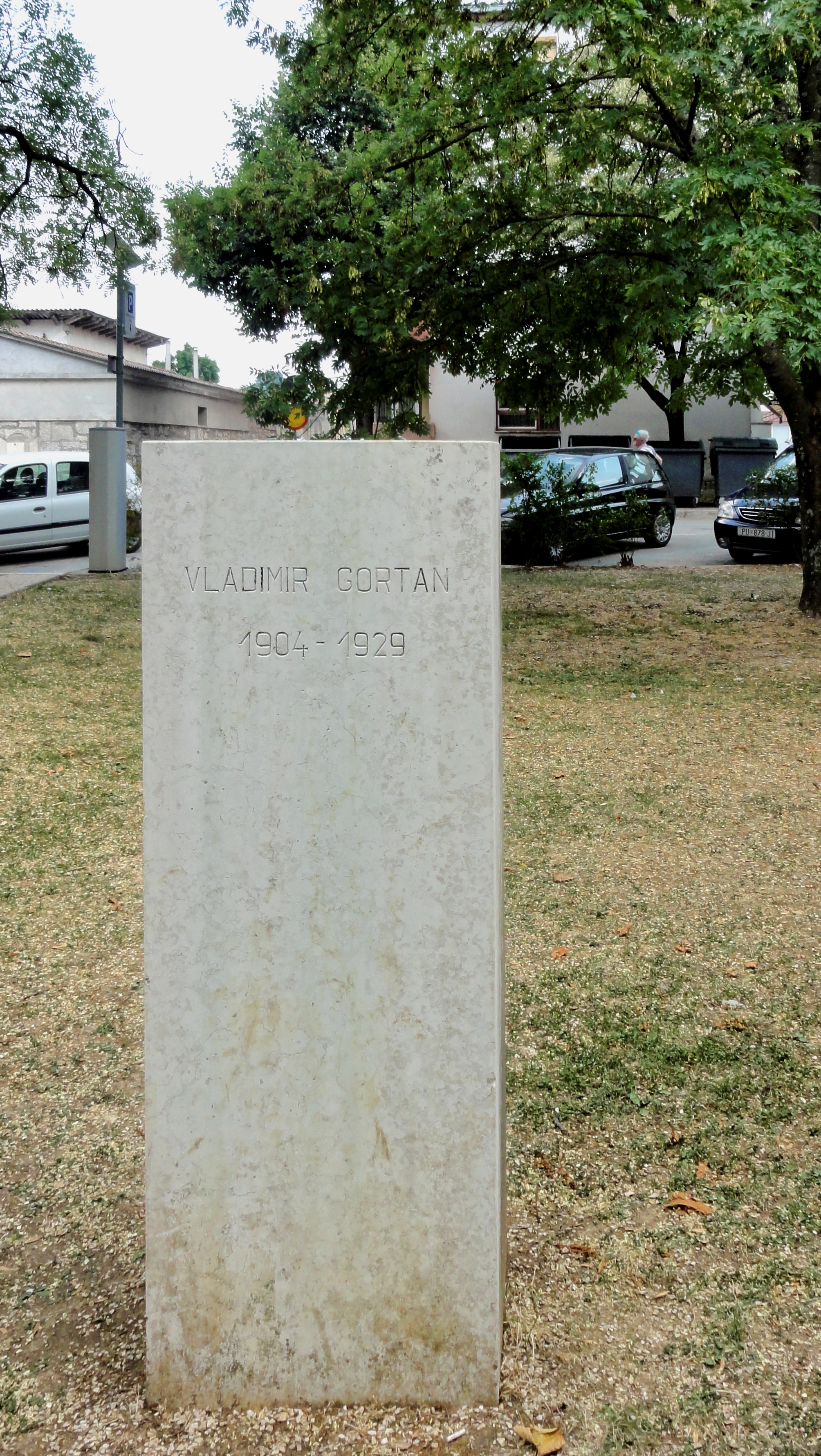 Bust of Vladimir Gortan in Pazin, Istria, Croatia